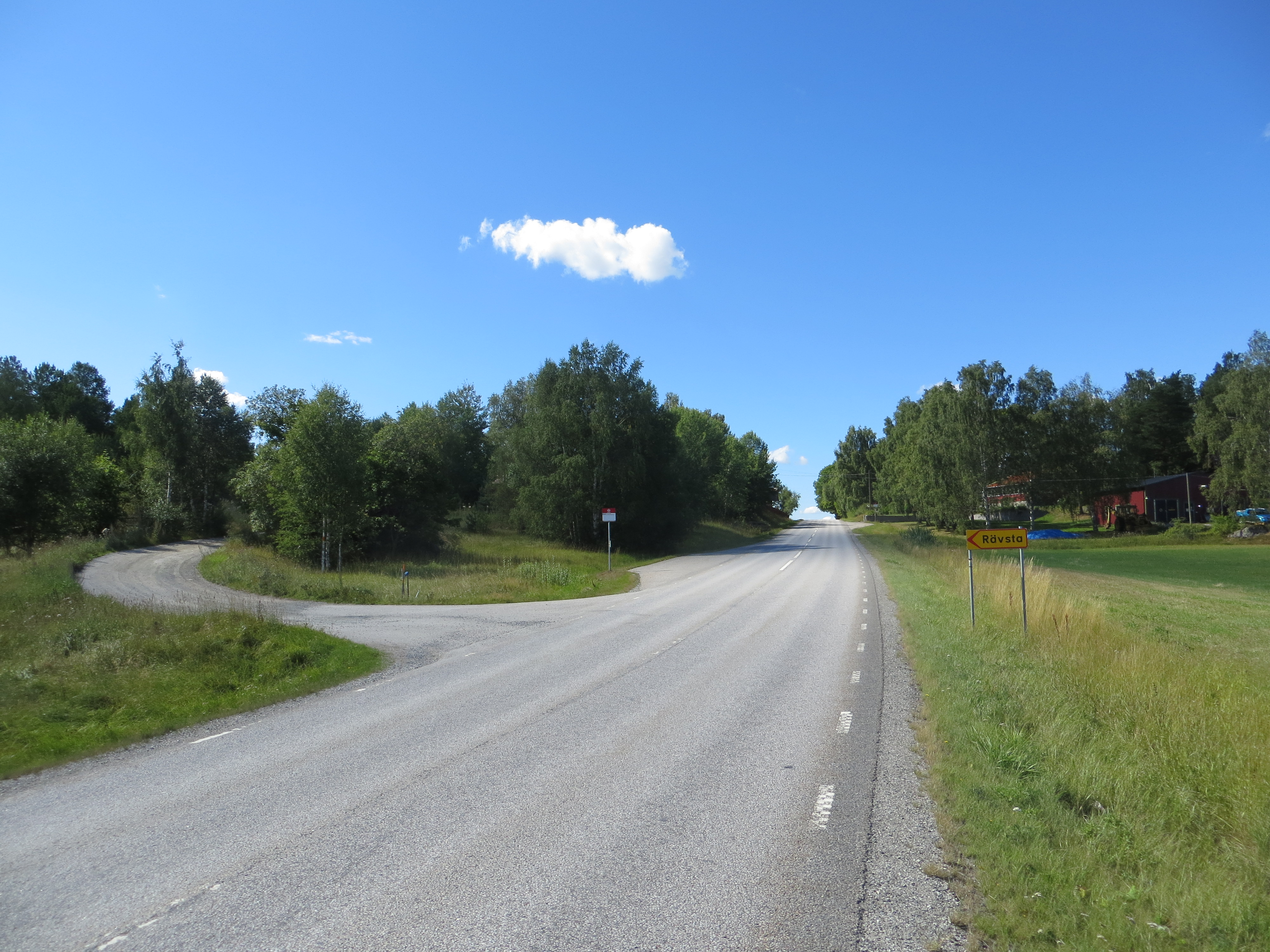 Street going to Rävsta in Sweden.